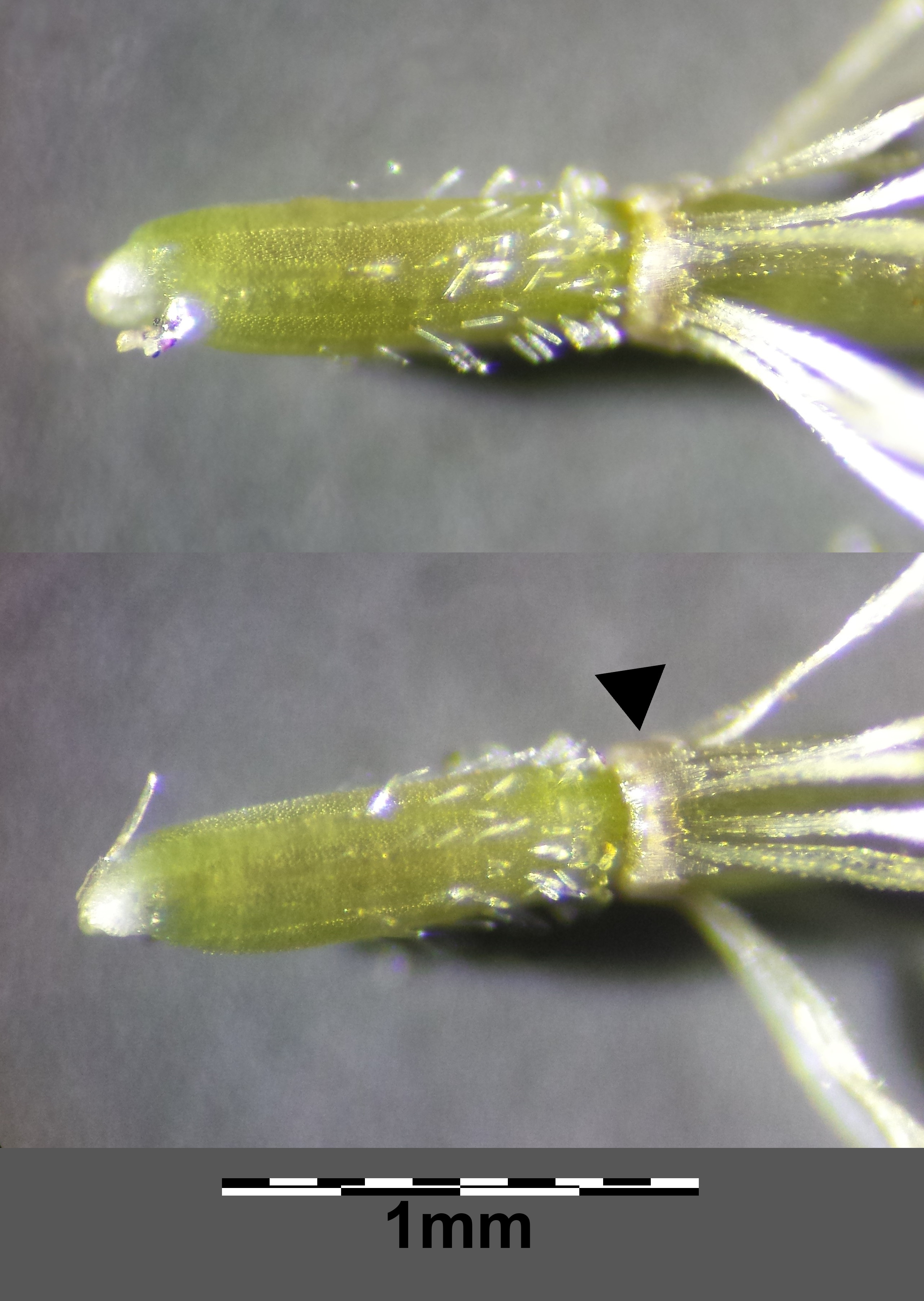 Achenes, pappus with an outer row of more or less connate scales Taxonym: Pulicaria dysenterica ss Fischer et al. EfÖLS 2008 ISBN 978-3-85474-187-9 Location: bei Obergänserndorf , district Korneuburg, Lower Austria - ca. 250 m a.s.l. Habitat: wayside/border of a shrubbery